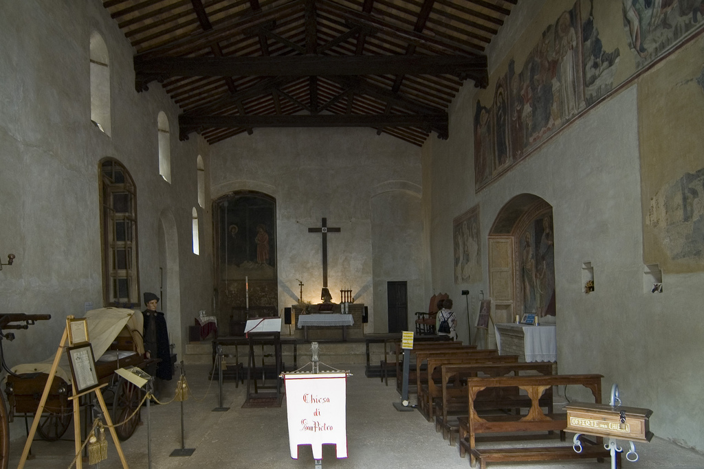 see above